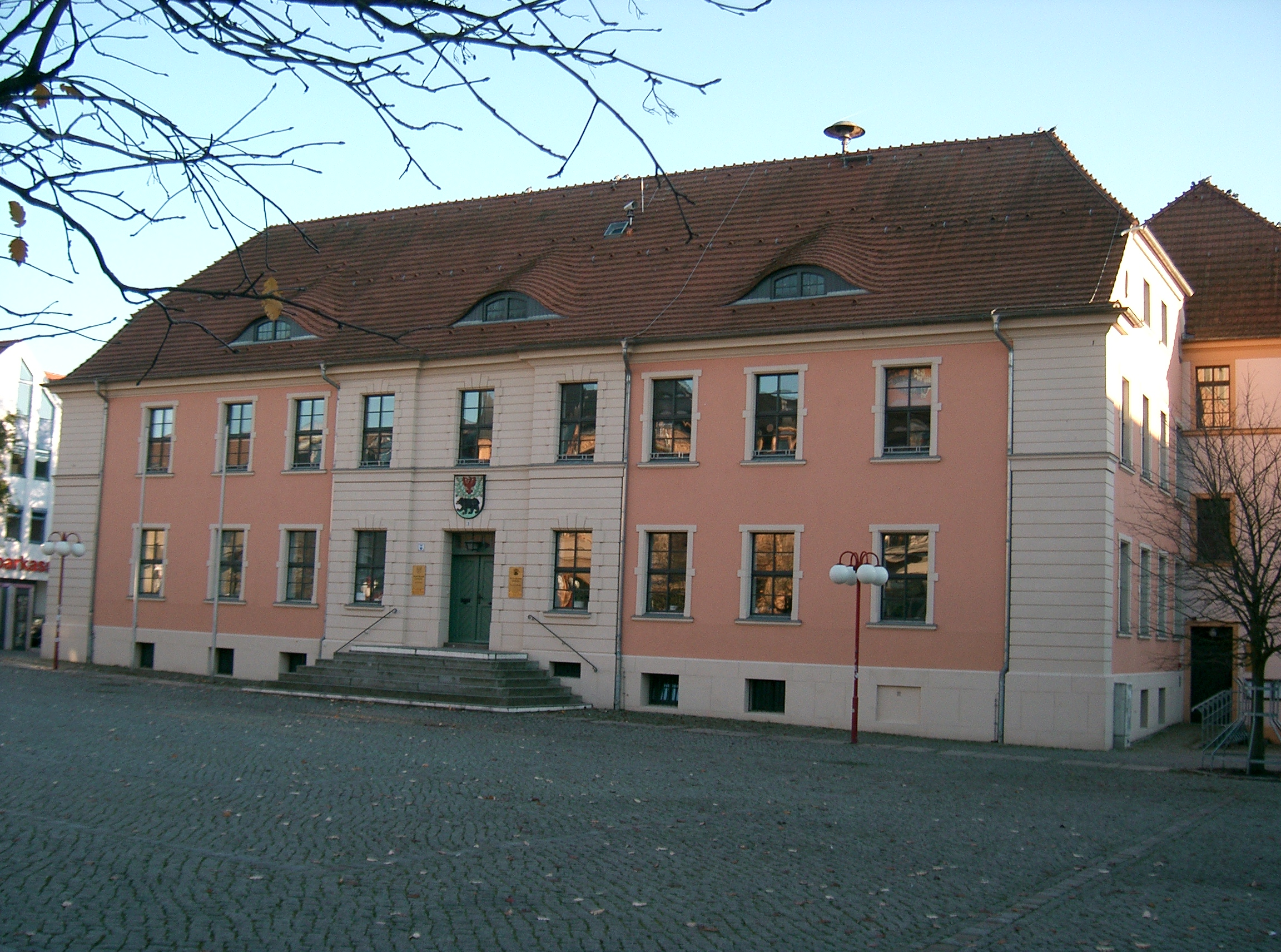 Town hall and market place of the german city Bernau bei Berlin.